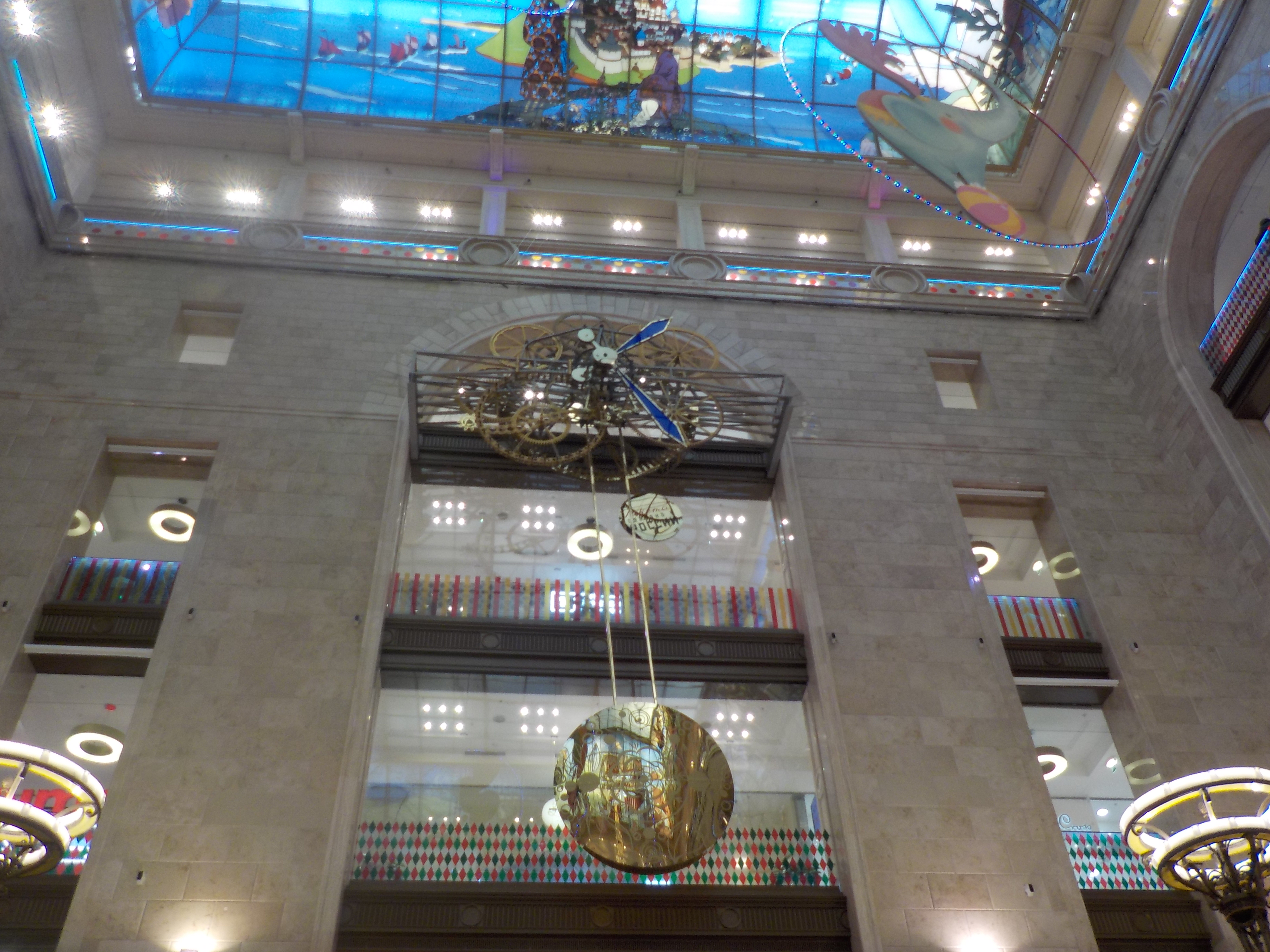 The clock at Detskiy Mir department store in Moscow - the biggest clock mechanism in world